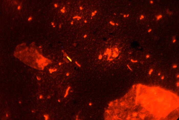 M. tuberculosis in a sputum smear is stained using fluorescent auramine with acridine orange counterstain; Mag.-950x. The auramine stain is absorbed by the Mycobacterium tuberculosis bacilli, which allows them to glow when view under the microscope using fluorescent lighting, and the acridine orange counterstain will promote visibility by reducing contrast.